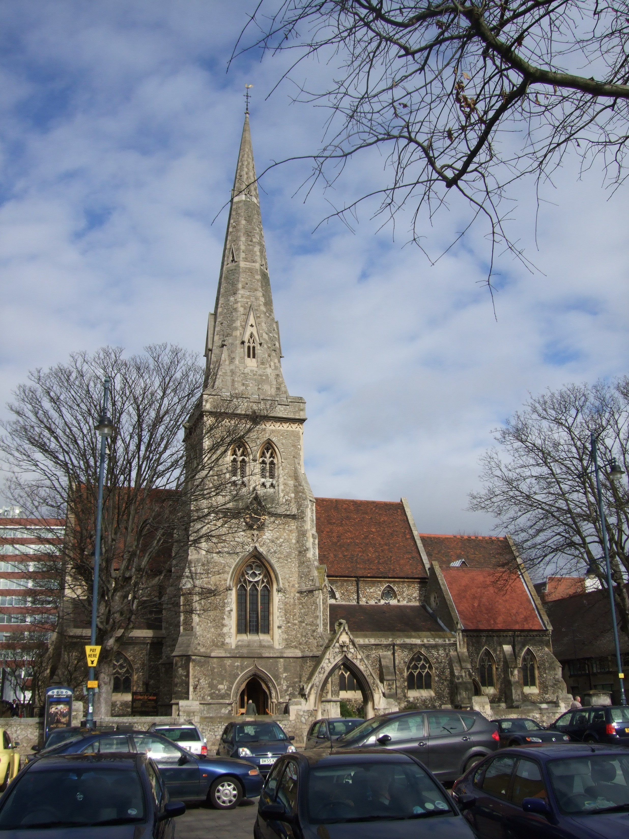 St Edward the Confessor parish church, Market Place, Romford, Essex